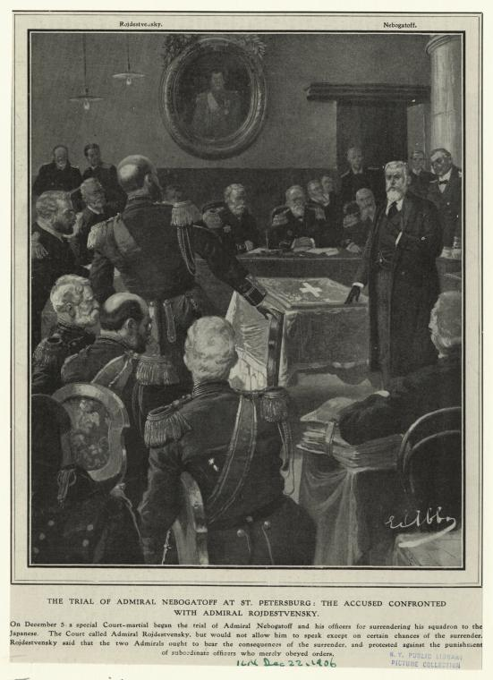 The Trial Of Admiral Nebogatoff At St. Petersburg : The Accused Confronted With Admiral Rojdestvensky.